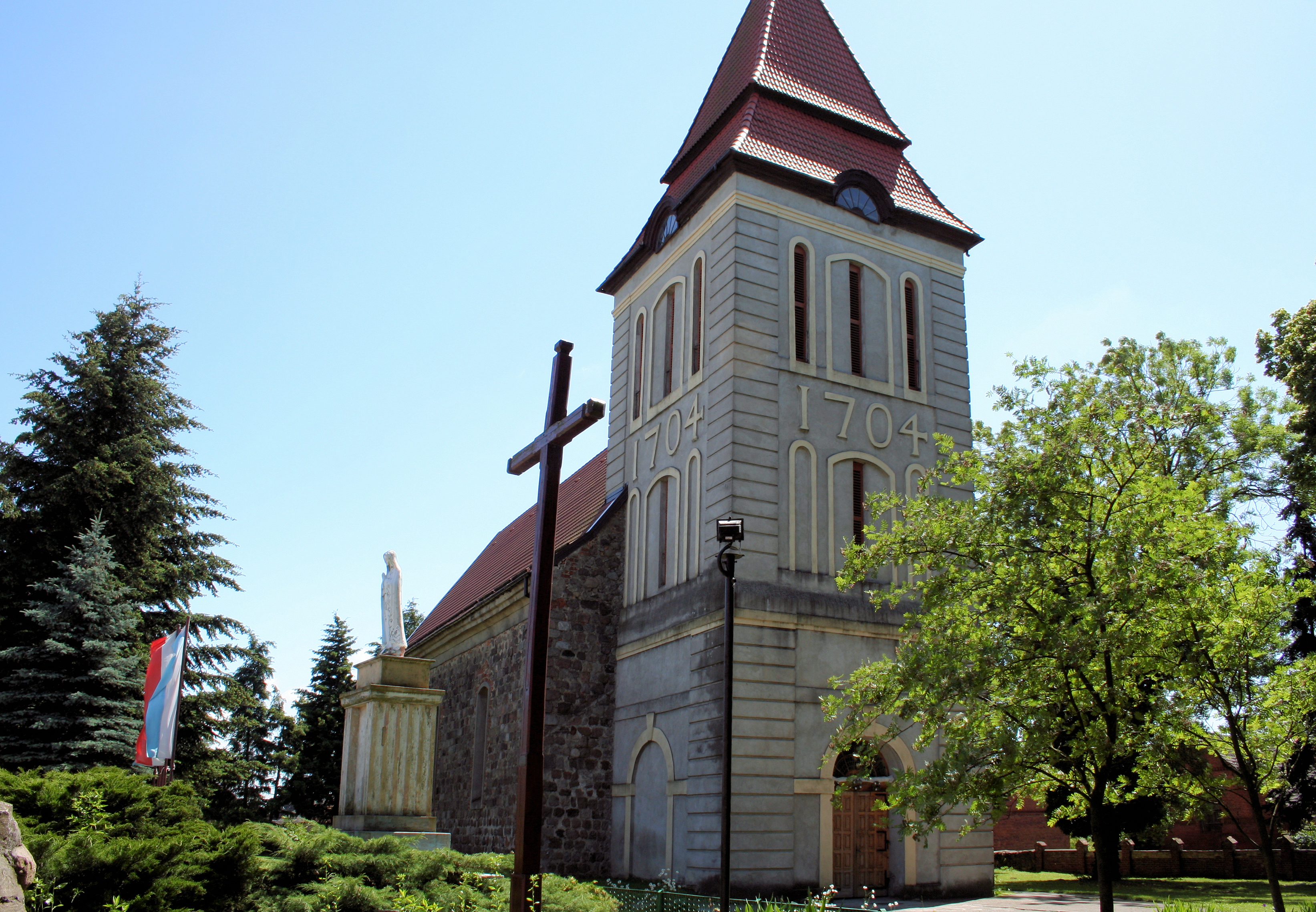 Church of the Nativity of the Blessed Virgin Mary in Zielin, West Pomeranian Voivodeship